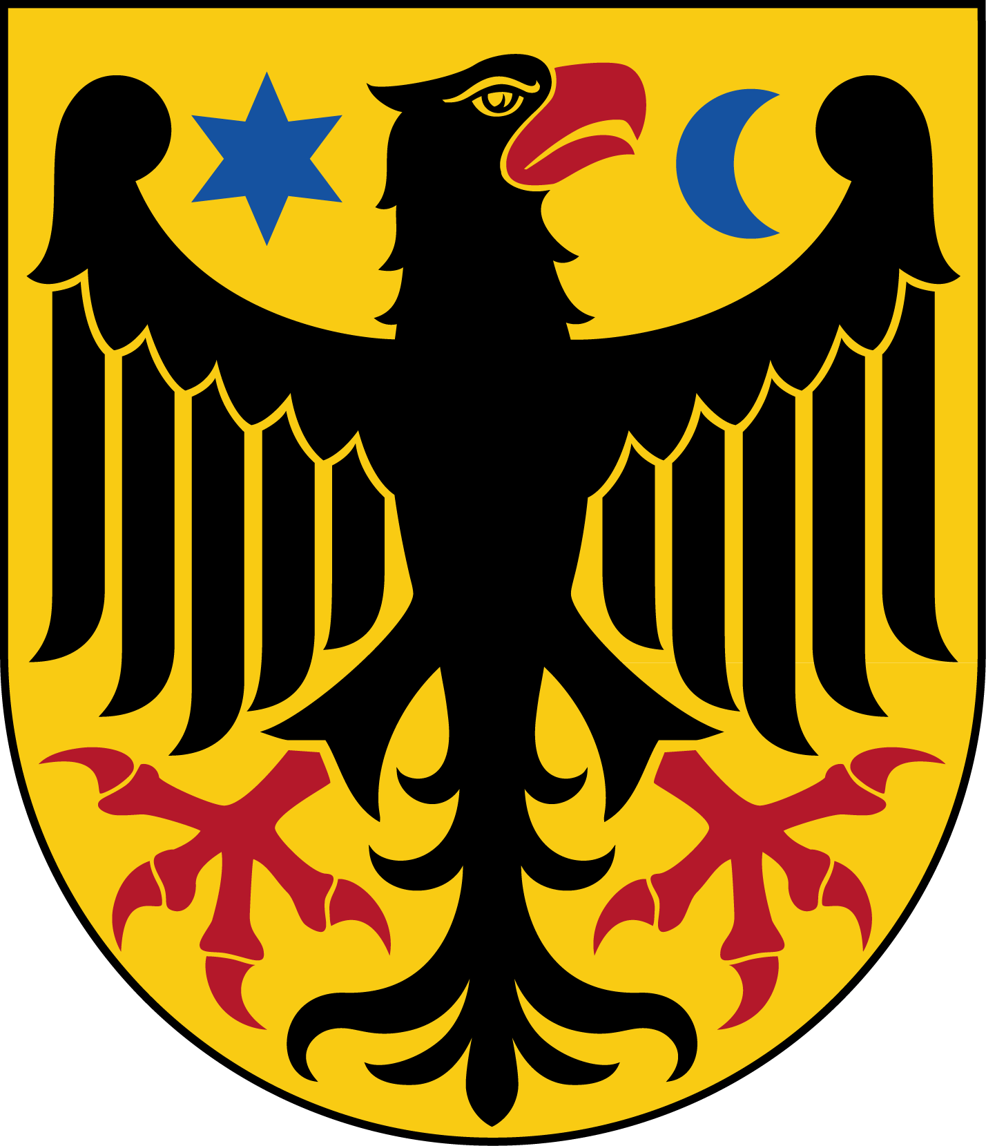 Coat of arms of the municipality of Örebro, Sweden. Painted by Vladimir A. Sagerlund when he was the heraldic artist at the National Archives of Sweden (Riksarkivet). This representation of a coat of arms is potentially different from the one used by the armiger (municipality or organisation) in question. = ⇑“Sable, a lionrampant or” This coat of arms was drawn based on its blazon which – being a written description – is free from copyright. Any illustration conforming with the blazon of the arms is considered to be heraldically correct. Thus several different artistic interpretations of the same coat of arms can exist. The design officially used by the armiger is likely protected by copyright, in which case it cannot be used here.Individual representations of a coat of arms, drawn from a blazon, may have a copyright belonging to the artist, but are not necessarily derivative works. Further information: Commons:Coats of arms and Template:Coa blazon